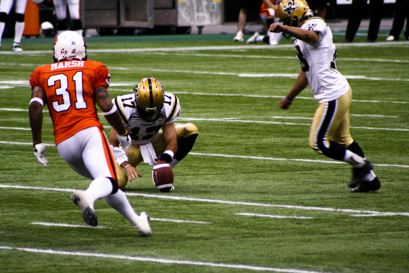 Alexis Serna attempting a field goal for the Winnipeg Blue Bombers with Stefan LeFors holding and Dante Marsh of the BC Lions attempting to block it.